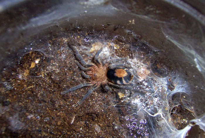 adult cyriocosmus perezmilesi